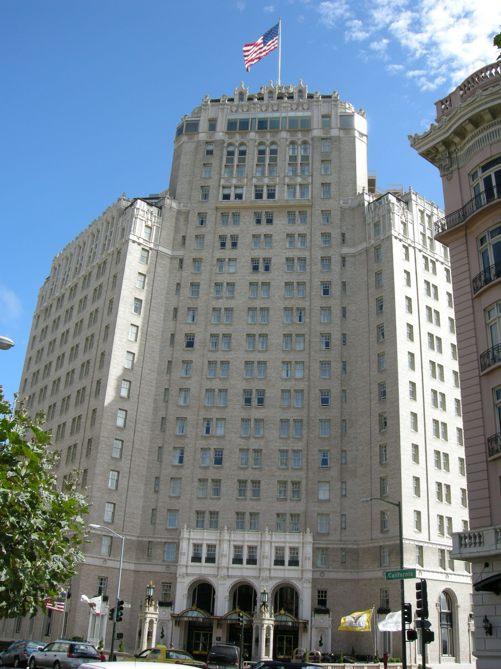 InterContinental Mark Hopkins San Francisco